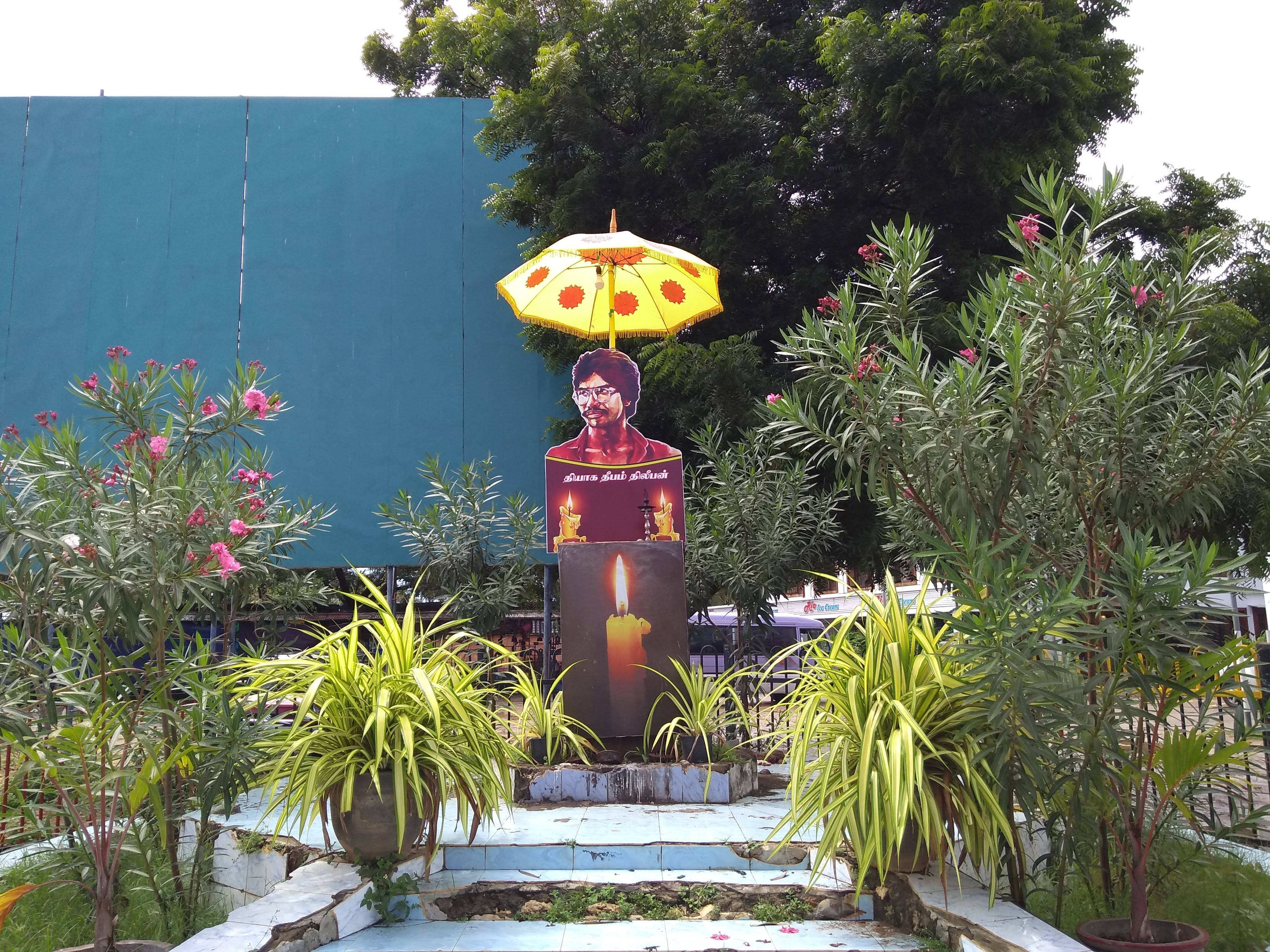 Memorial of Lt. Colonel Thileepan,Jaffna, Srilanka.